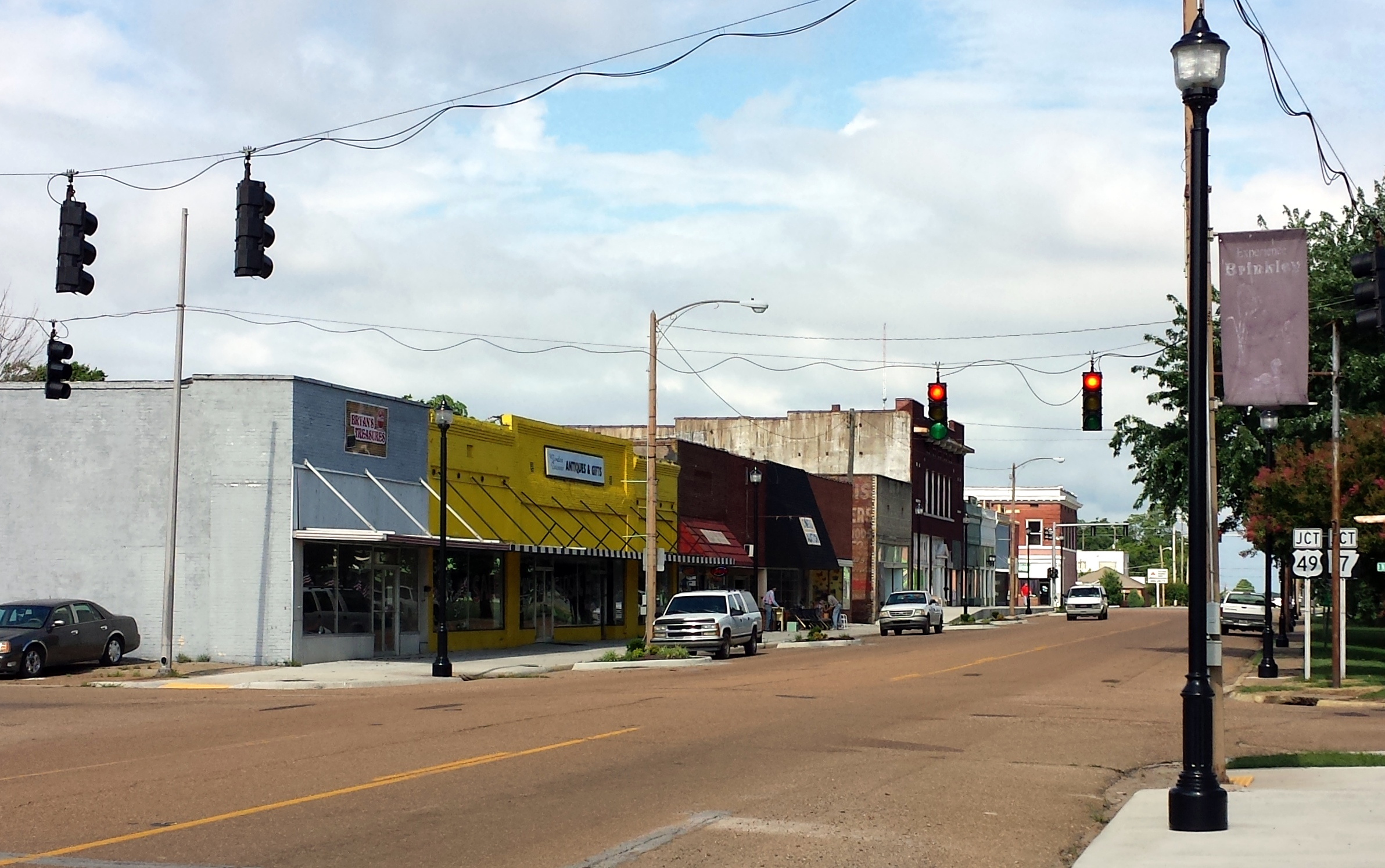 Downtown Brinkley, AR along US 70